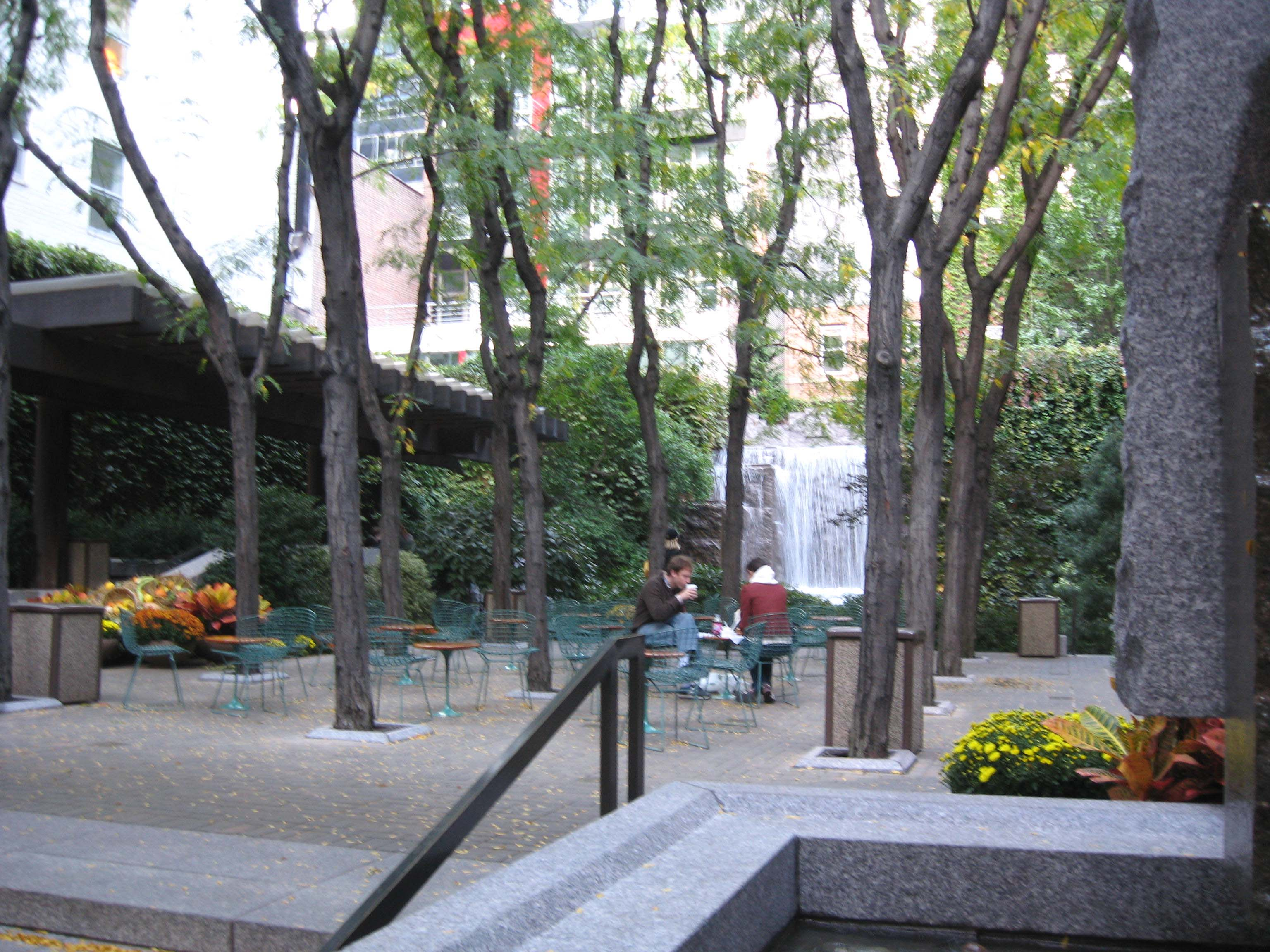 Looking north into Greenacre Park at 215 East 51st Street, Manhattan, on a cloudy afternoon